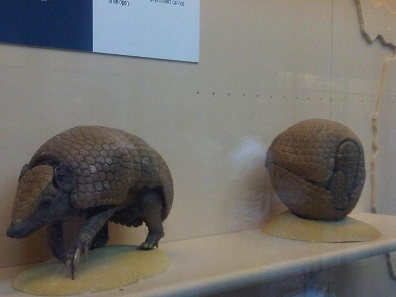 Taxidermied Brazilian Three-banded Armadillos (Tolypeutes tricinctus) at the Natural History Museum in London.